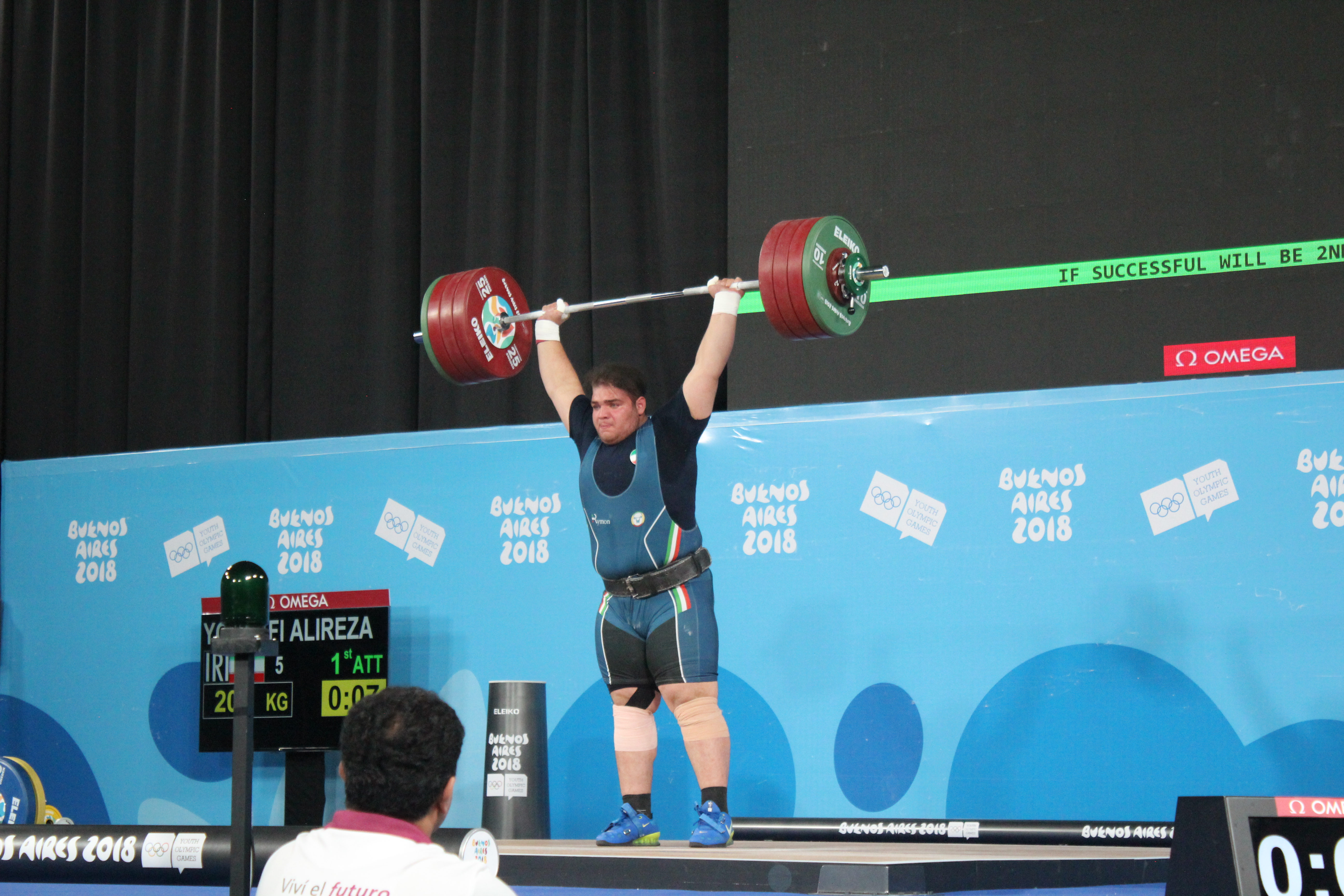 Weightlifting at the 2018 Summer Youth Olympics – Boys' +85 kg.